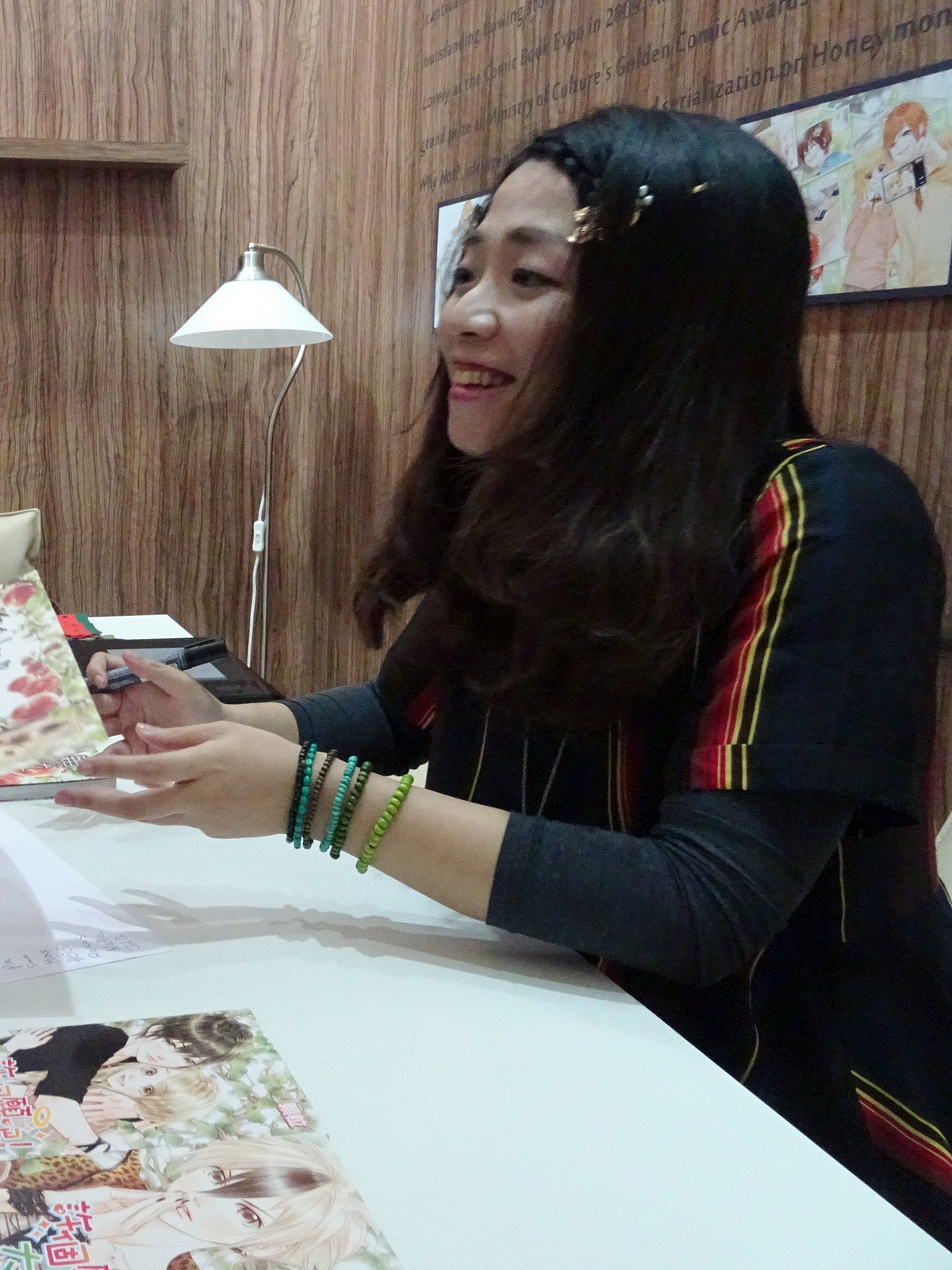 Cory (Ke Ying-Mei, 柯瑩玫), Taiwan Manga and Comic Artist at the Frankfurt Book Fair 2016